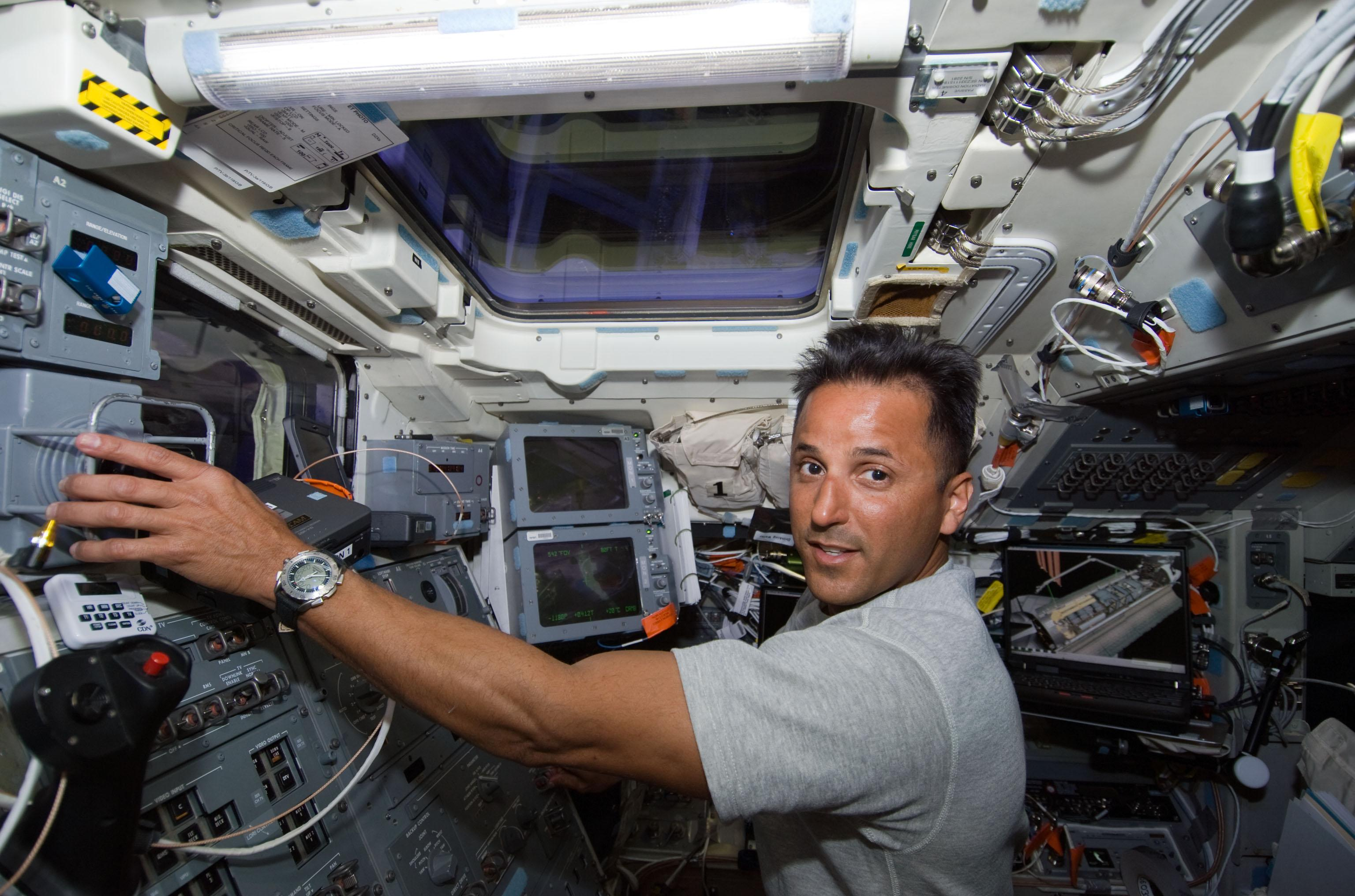 Astronaut Joseph Acaba operated Discovery's robotic arm after the shuttle reaches space.